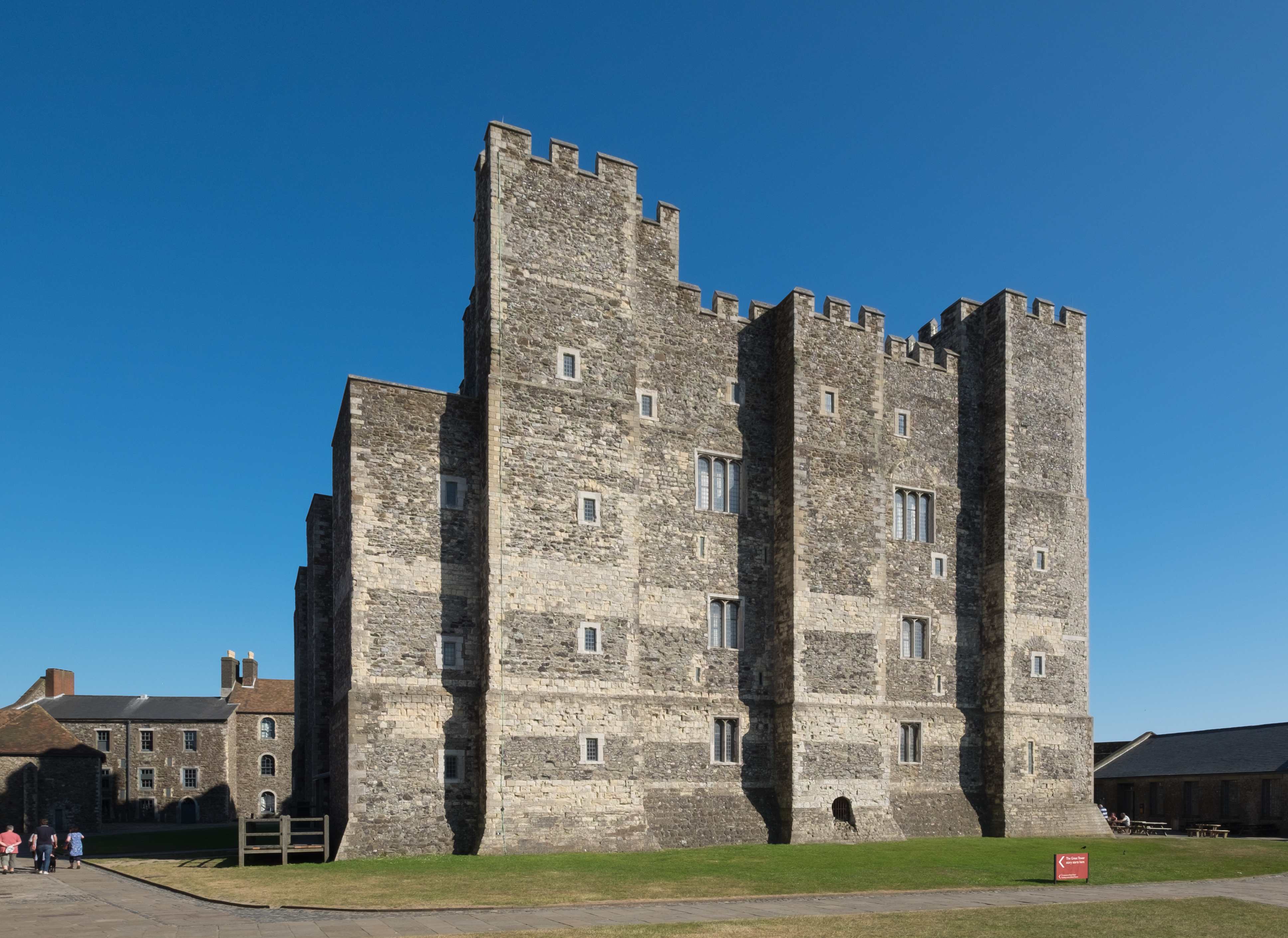 Henry II's Great Tower (the keep) in Dover Castle, Kent. The castle is a grade I listed building in England